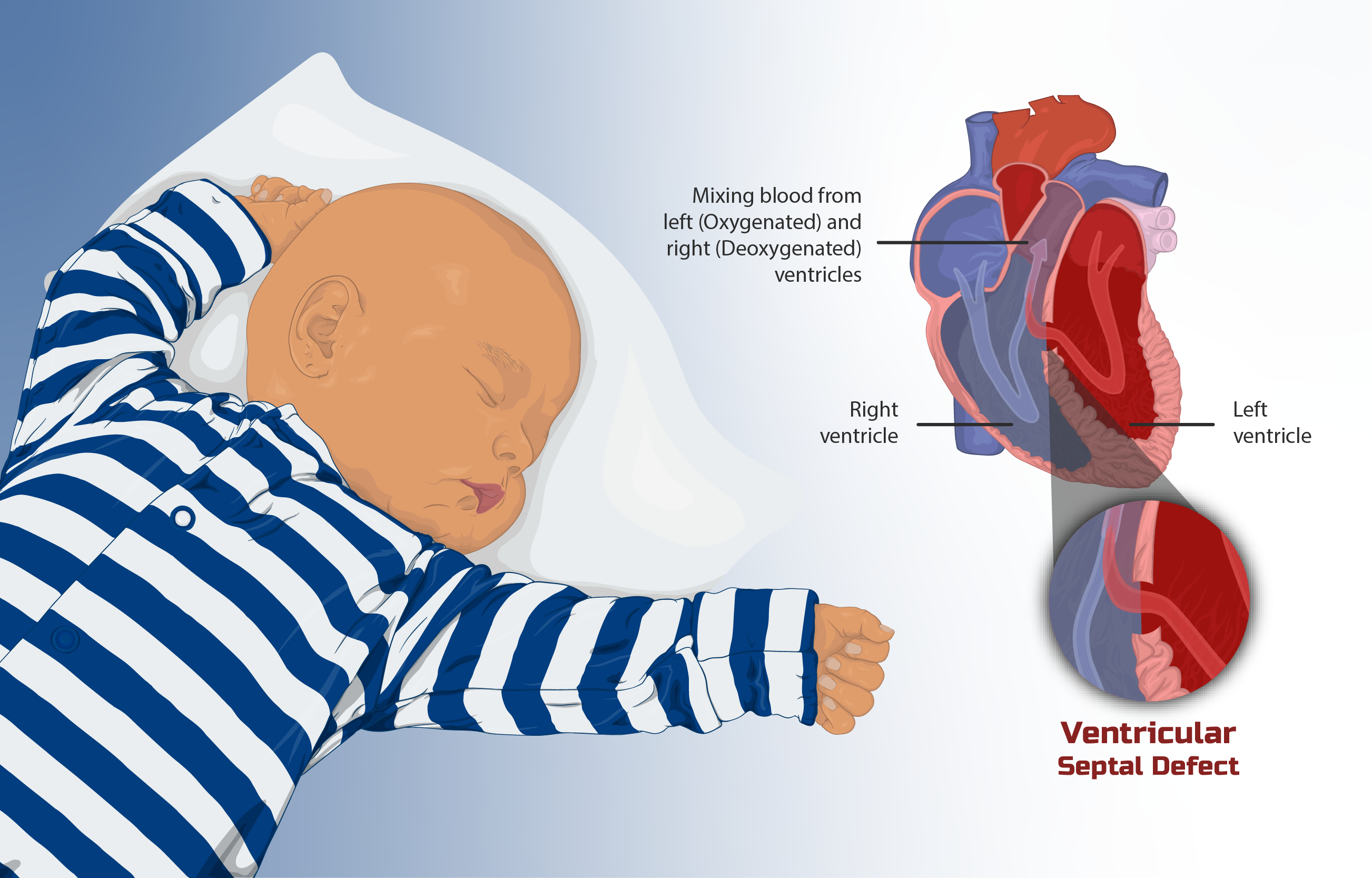 Depiction of a child with Congenital Heart Disease. Ventricular Septal defect has been illustrated.